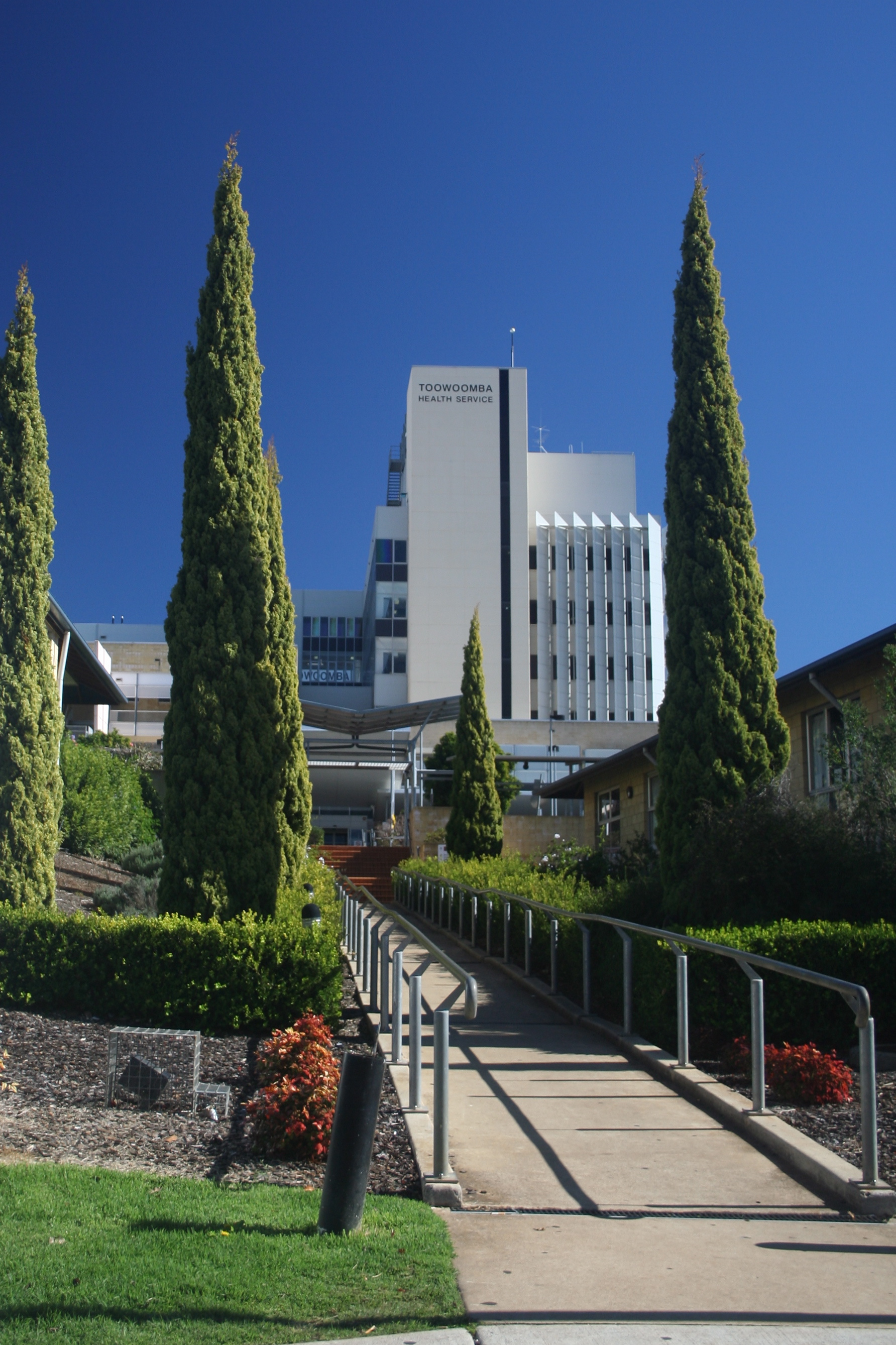 Toowoomba Hospital, located in Queensland Australia. Taken on 21 June 2008.